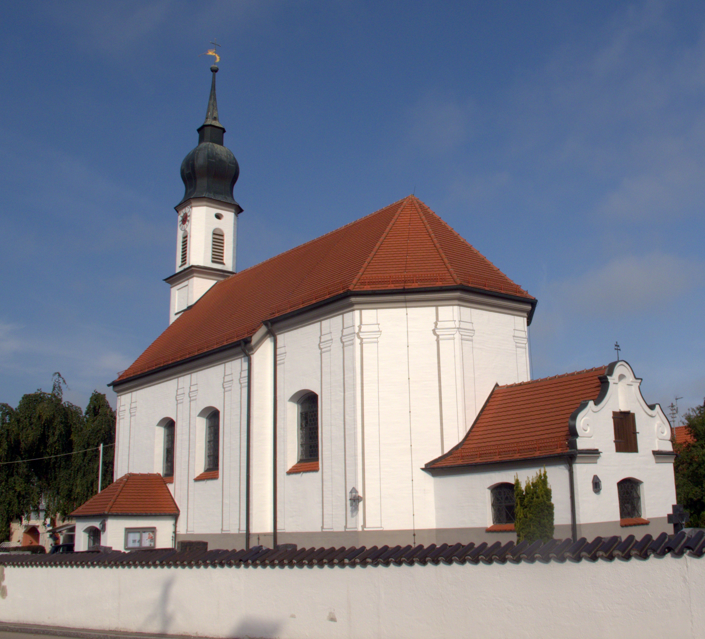 This is a photograph of an architectural monument.